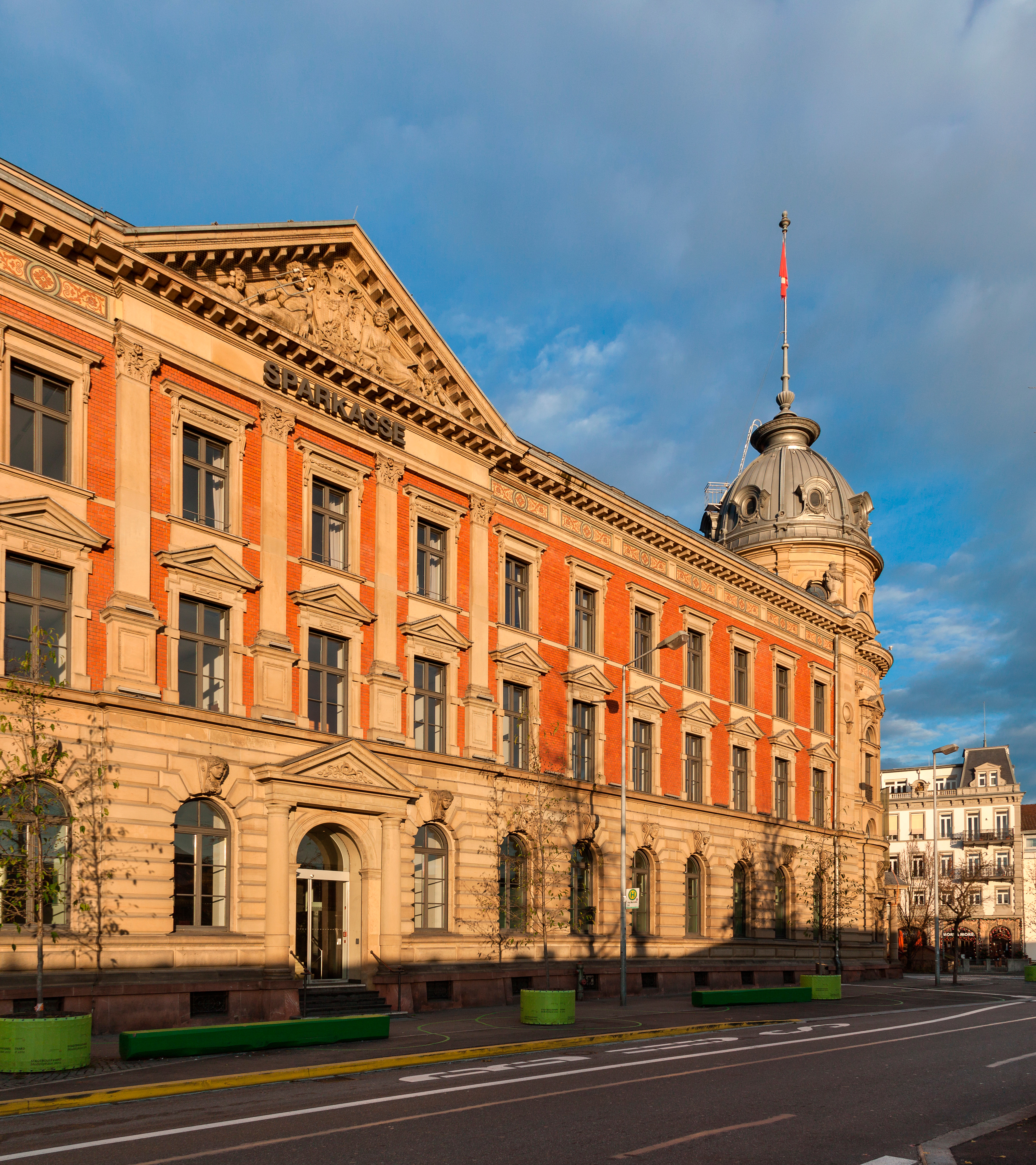 The building of Sparkasse bank in Konstanz, illuminated by the rising sun in the early morning.